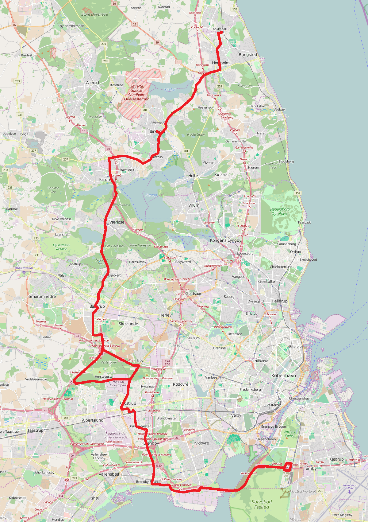 Map of Copenhagen bus line 500S between Kokkedal Station and Ørestad Station as of October 2019. This map may be incomplete, and may contain errors. Don't rely solely on it for navigation.